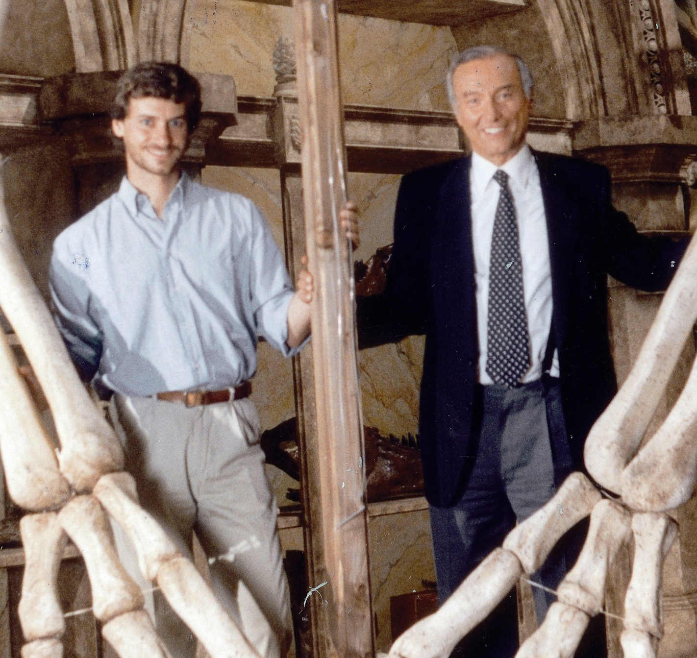 Piero and Alberto Angela.